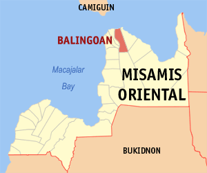 Map of the Misamis Oriental showing the location of Balingoan